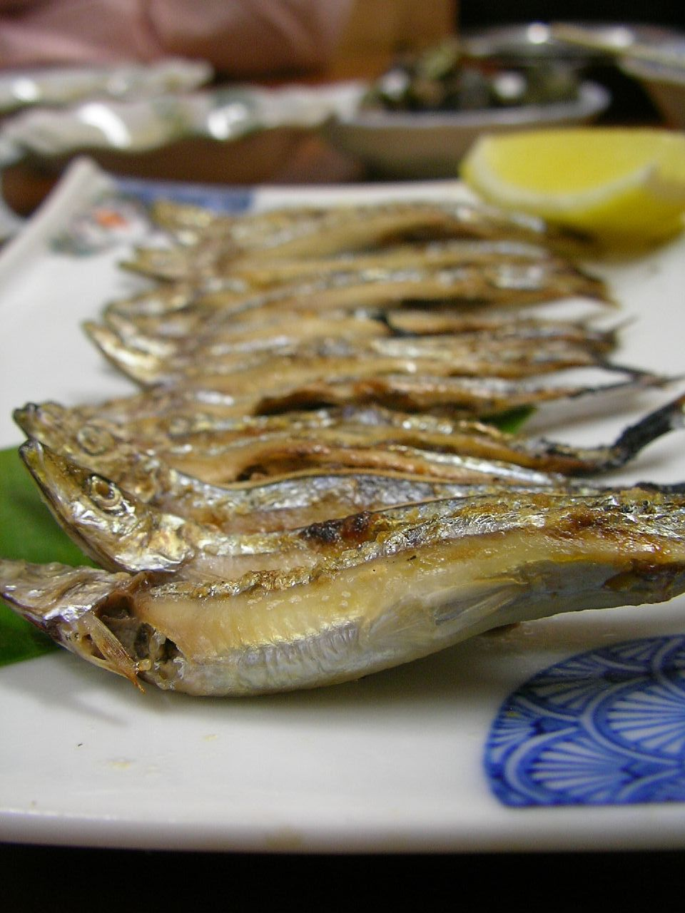 Grilled slender sprat - Spratelloides gracilis